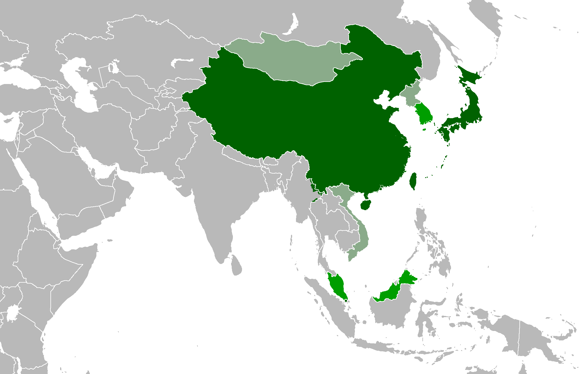 Countries (modern boundaries drawn) where Chinese characters were/are used in its official/dominant language or at least one of its official/dominant languages. Chinese characters are used extensively Chinese characters are used but not as primary writing system Chinese characters were once used in the official language but are not used any more (North Korea, Mongolia and Vietnam).